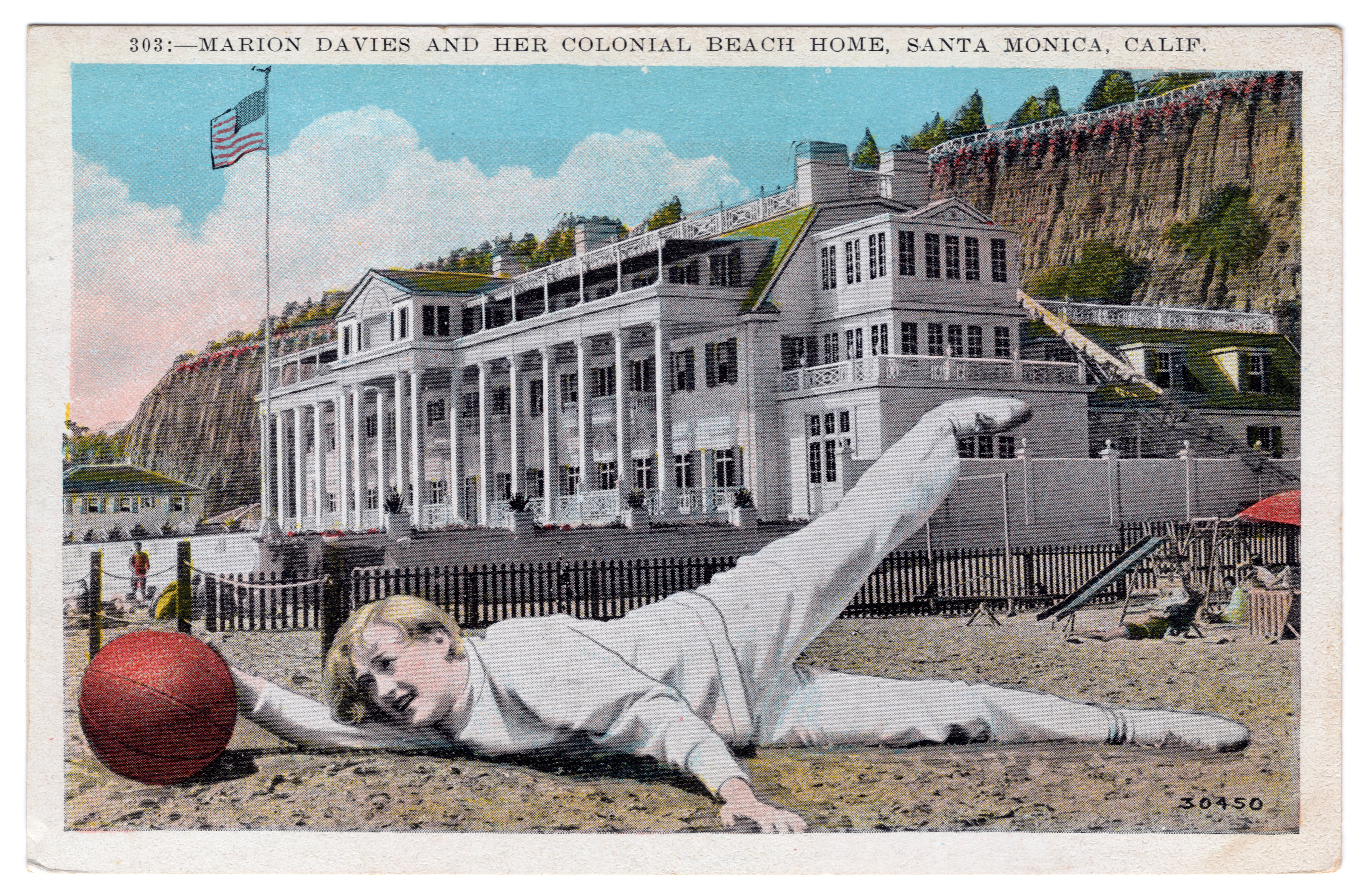 Postcard of Marion Davies in front of her beach house in Santa Monica, California Construction began in 1928, completion in 1929–30